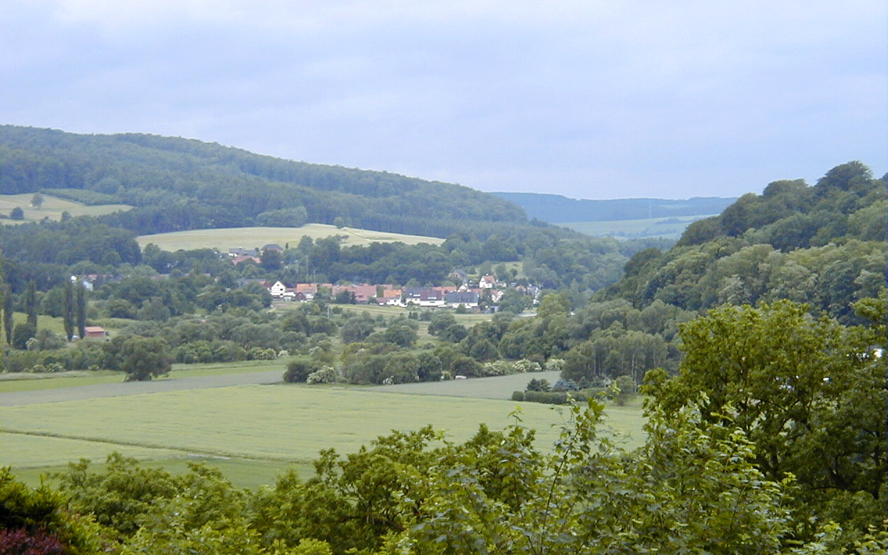 Bonaforth im Fuldatal, Lower Saxony, Germany, 1999